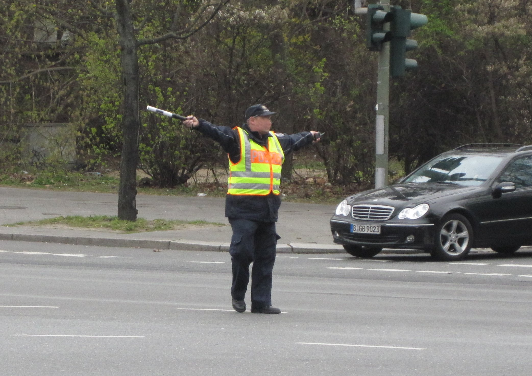 German police officer regulating traffic with a traffic baton